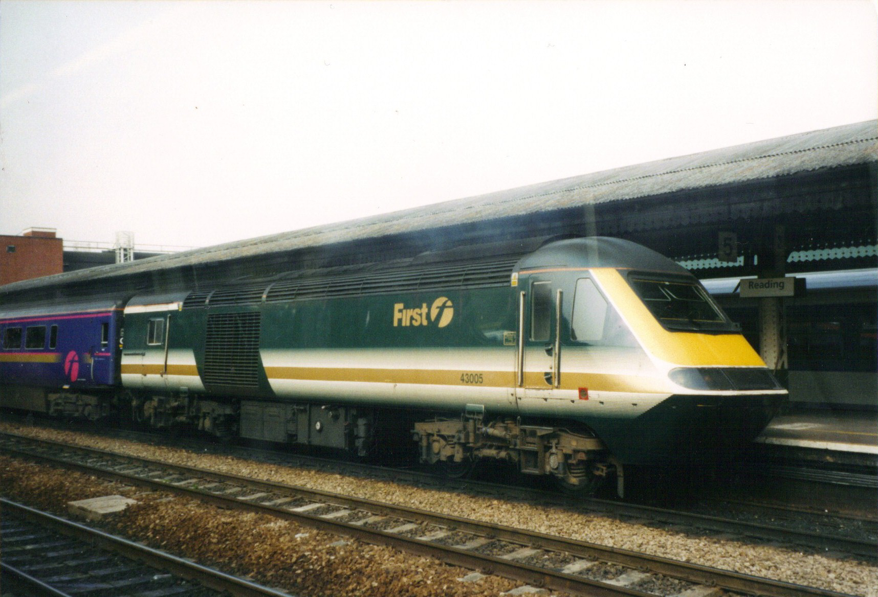 First Great Western 43005 stands at Reading railway station station.